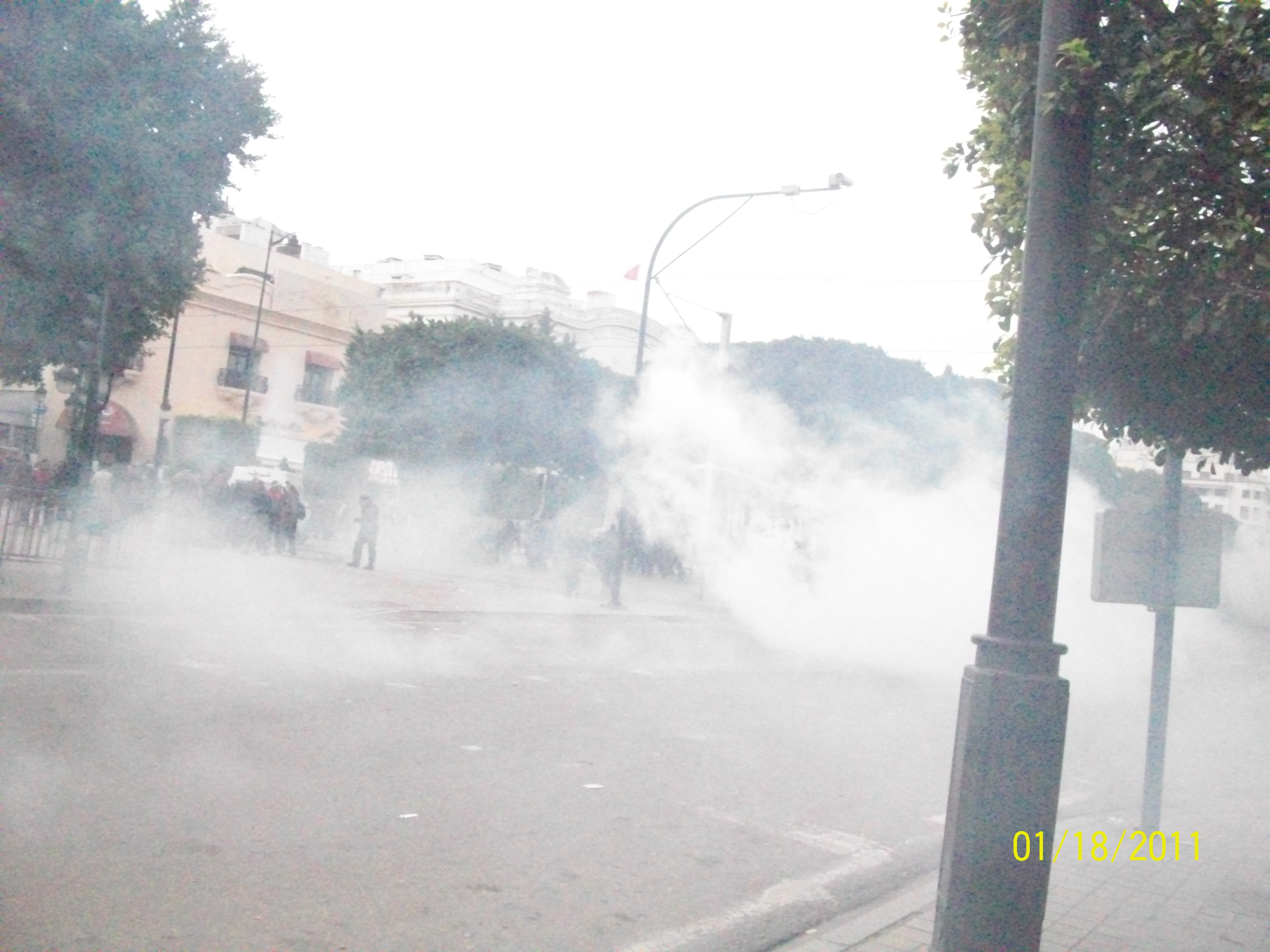 Full story: القصة l'histoire